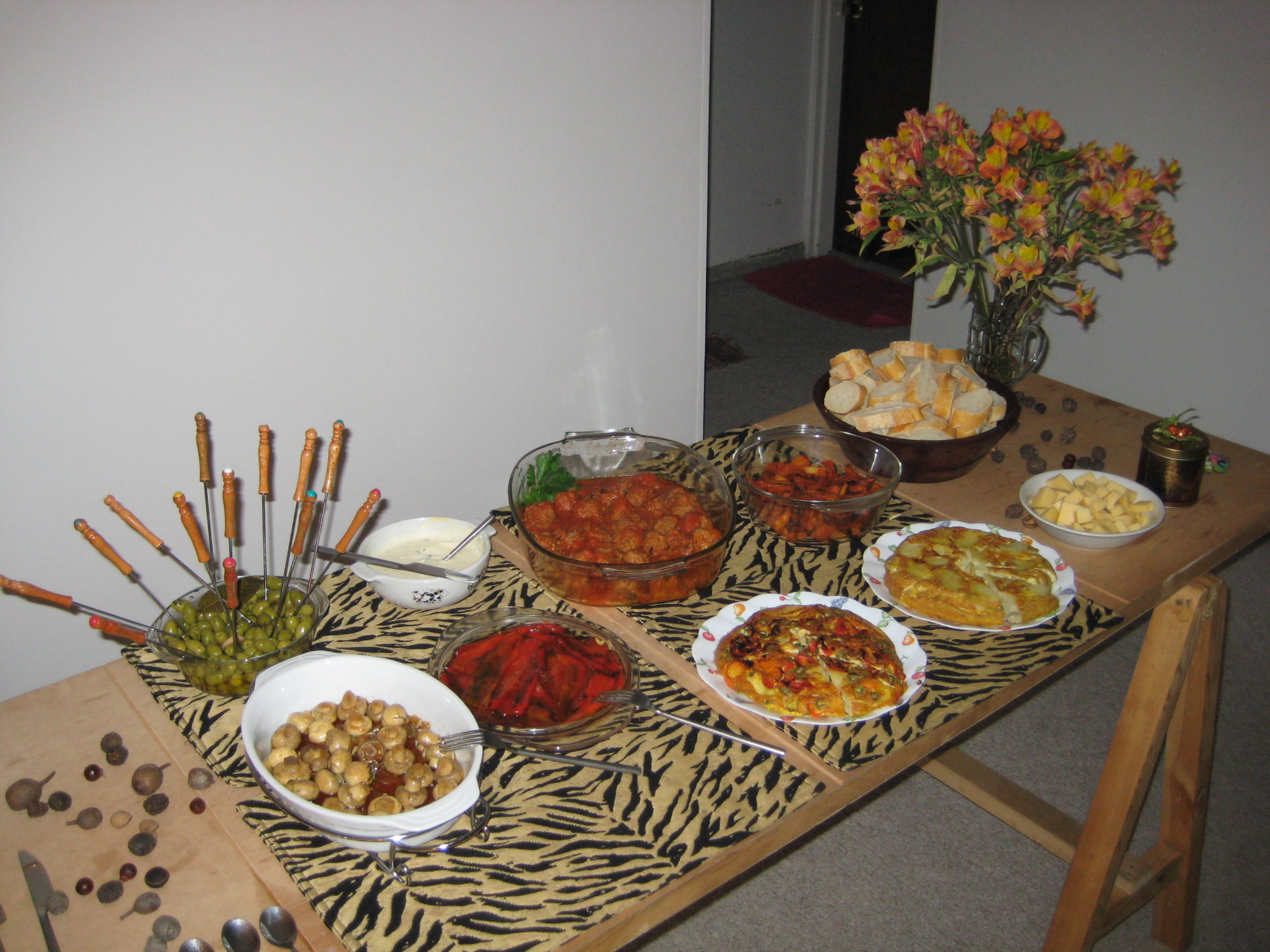 Tapas